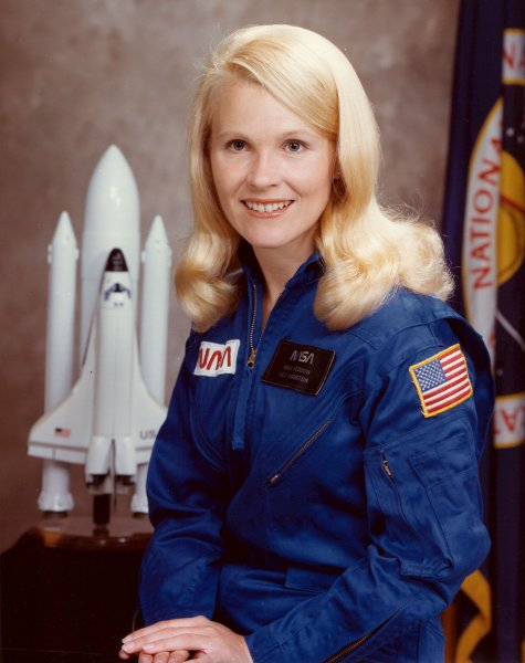 Portrait of former NASA Astronaut Margaret Rhea Seddon.